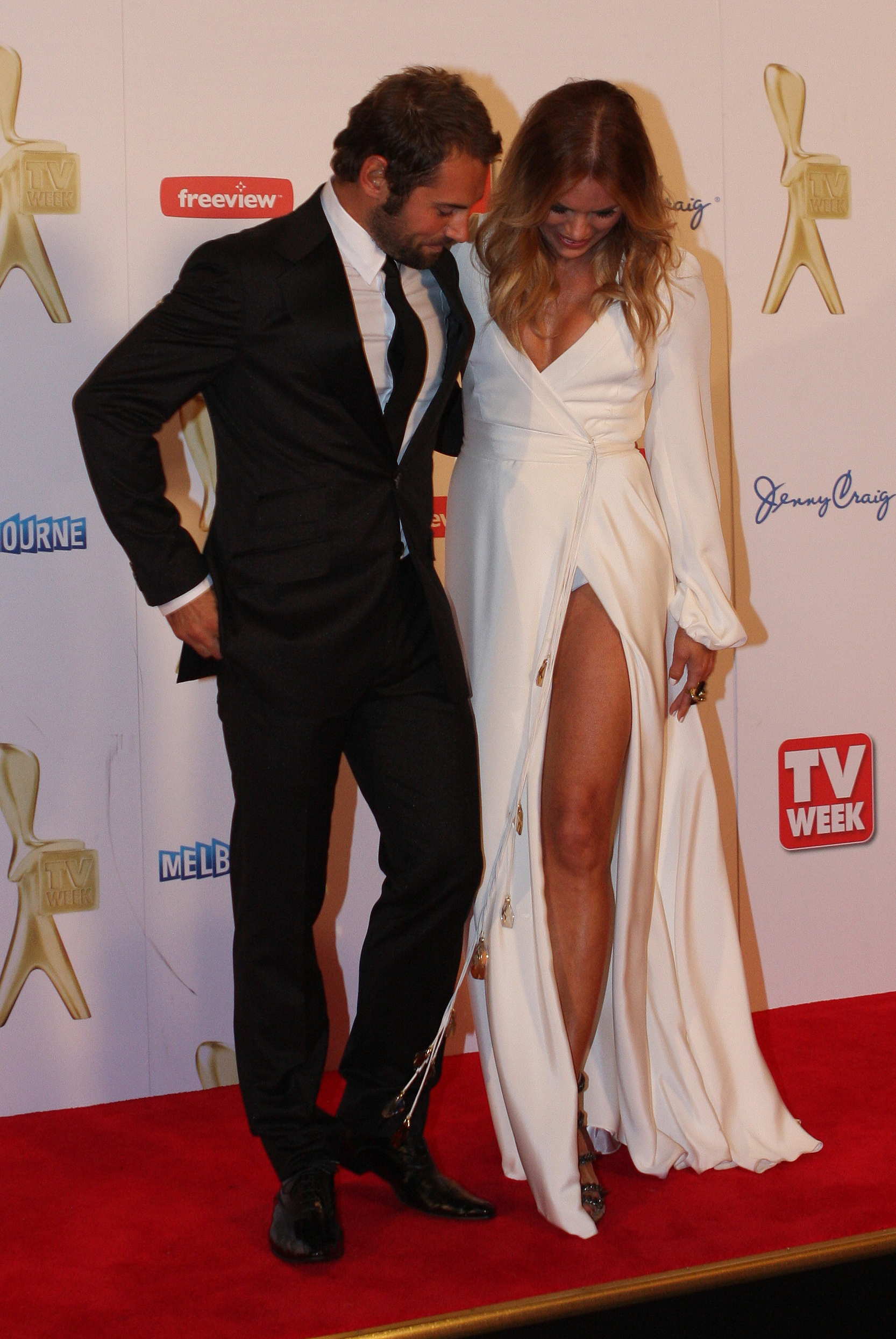 Sonia Kruger and Daniel MacPherson at the 2011 Logie Awards